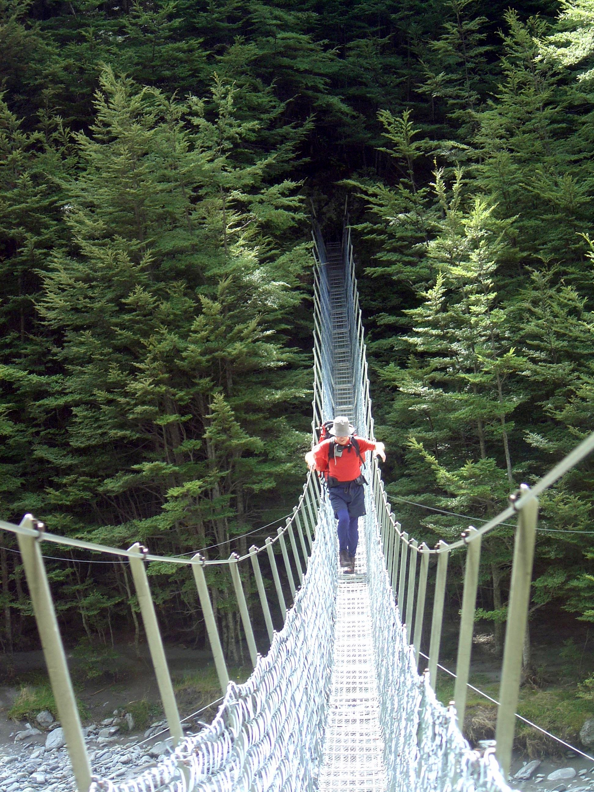 A tramper crossing a swing bridge on the Huxley River in the South Island of New Zealand.